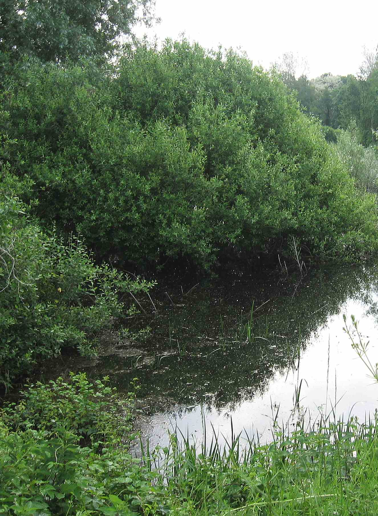 Lake of Bertignano: the swamp eastwards (BI, Italy)